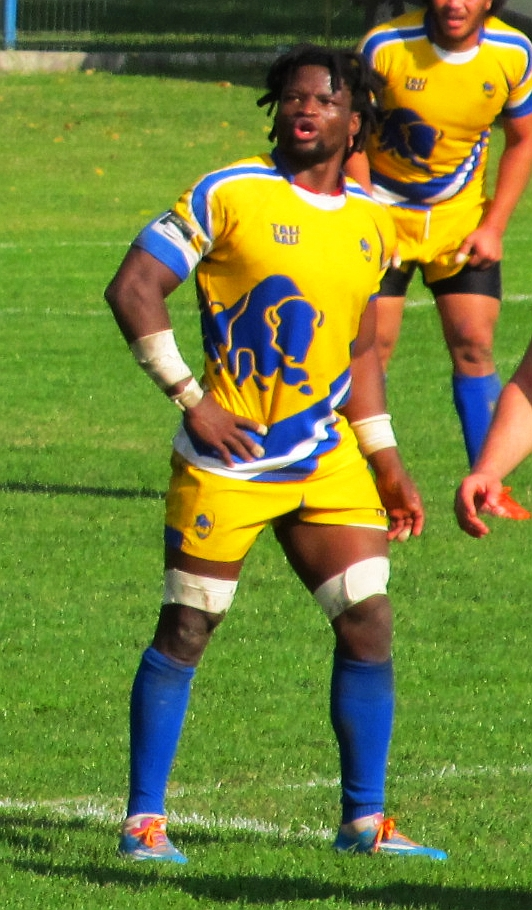 South African Rugby Union player Kuselo Moyake during a match between his team, CSM Baia Mare, and rivals CSM București.